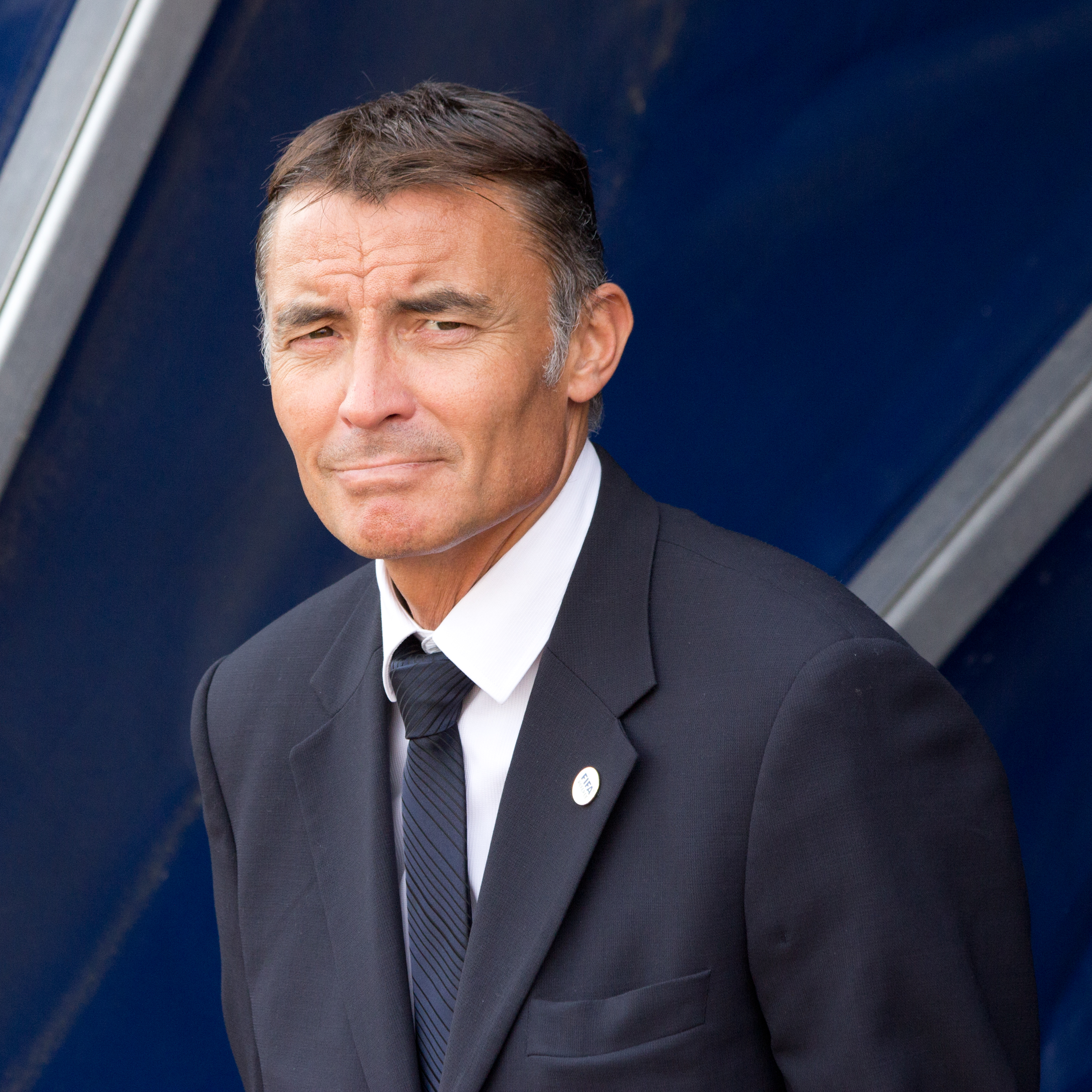 Manuel Enrique Mejuto González, Spanish association football referee.